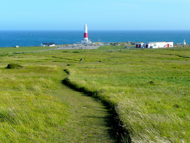 Portland Bill Looking south across the last few hundred yards of the island towards the lighthouse and France.